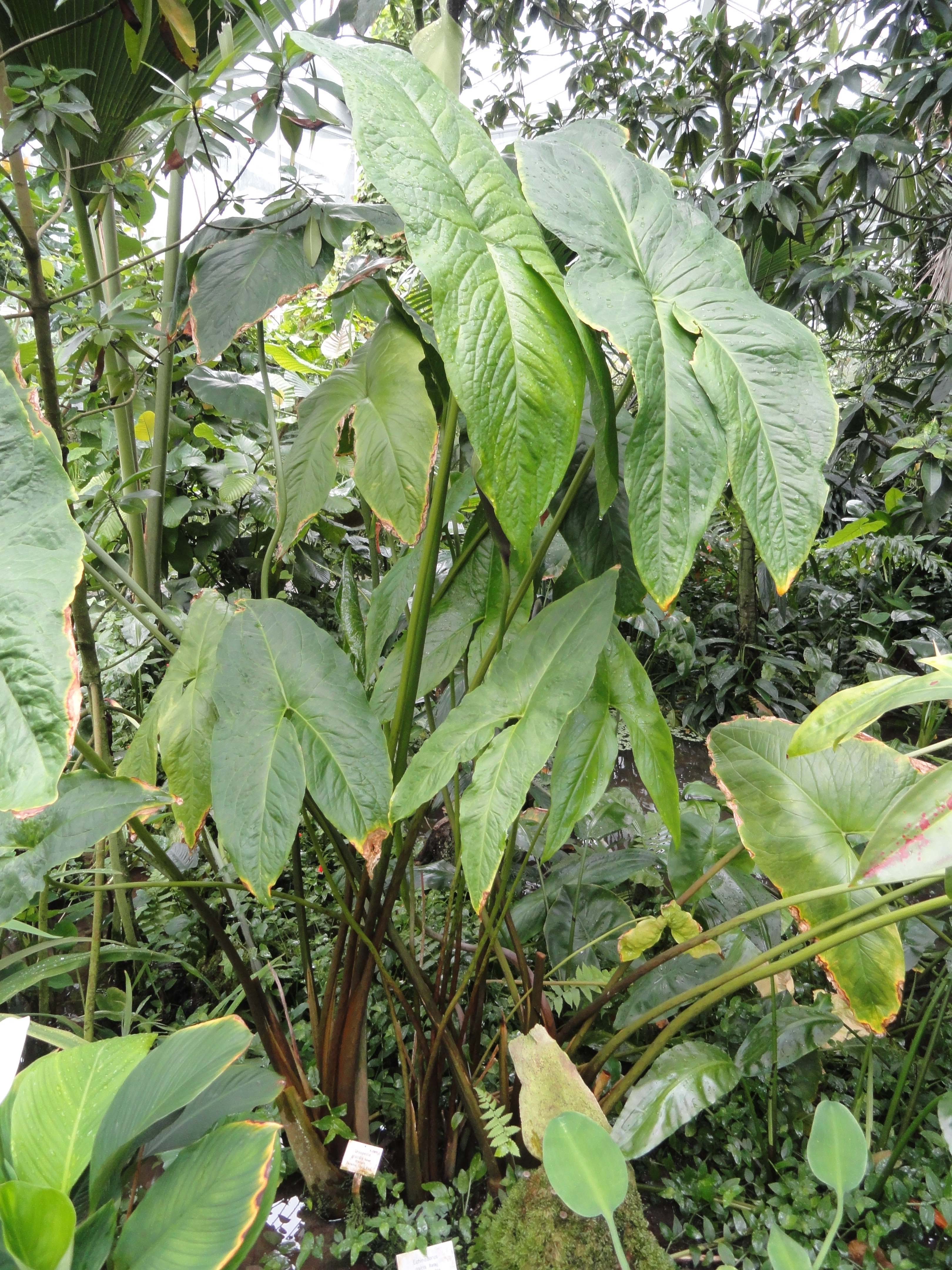 Botanical specimen in the Palmengarten, Frankfurt am Main, Germany.